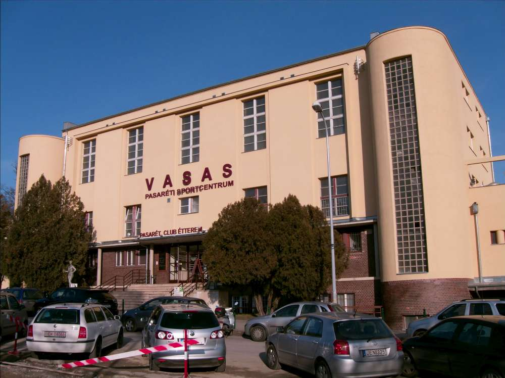 "Vasas" Sportscenter - 2. distr. Pasaréti út 11-13., Budapest, Hungary